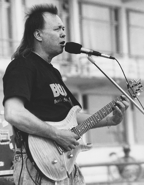 Mike Deasy playing the Pärnu, Estonia jazz fest 1992